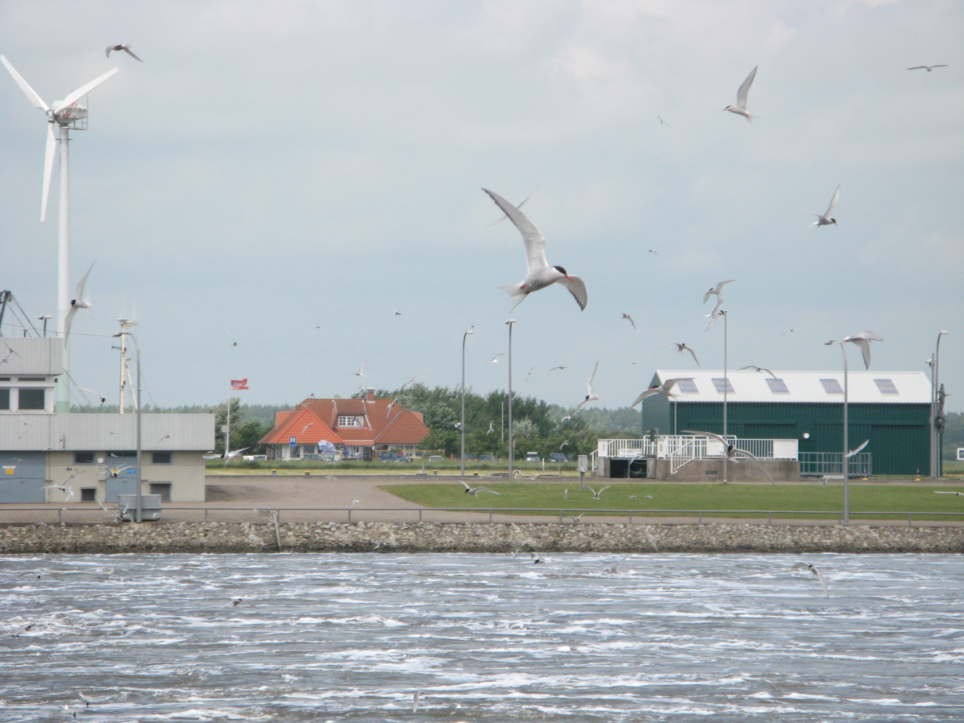 sterna paradisaea (Küstenseeschwalbe, arctic tern) in the air at the Eidersperrwerk